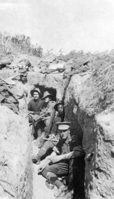 Men of the 8th Battalion in an abandoned Turkish position on Bolton's Ridge. Identified from back to front: 556 Private (Pte) Ted 'Kid' Freeman of Dooen, Vic (originally of Hobart, Tas), later honorary Captain and MC, Company Quartermaster; 533 Pte George Clements of Dimboola, Vic; 527 Pte James B 'Jim' Bryant of Stawell, Vic, holding an enemy shellcase; 617 Pte Samuel 'Sam' Wilson of Dimboola, Vic (later KIA); and 571 Pte Robert Hutchinson of Horsham, Vic. The image was taken with Jim Bryant's camera by an unknown photographer.